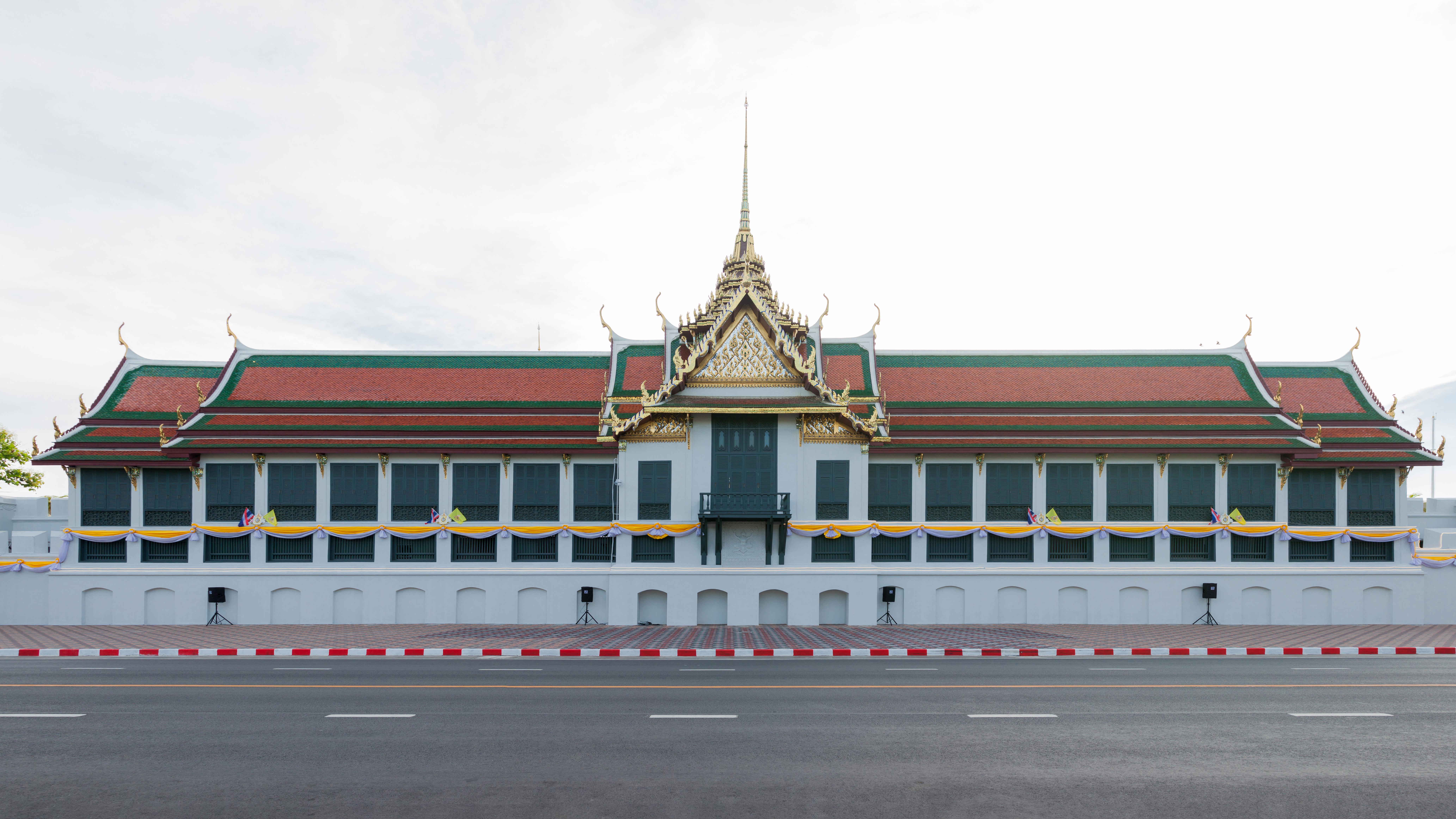 Phra Thinang Sutthai Sawan Prasat of Grand Palace, Bangkok.